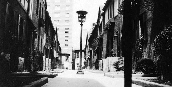 A view of Pomander Walk in Manhattan, New York in the 1920s.